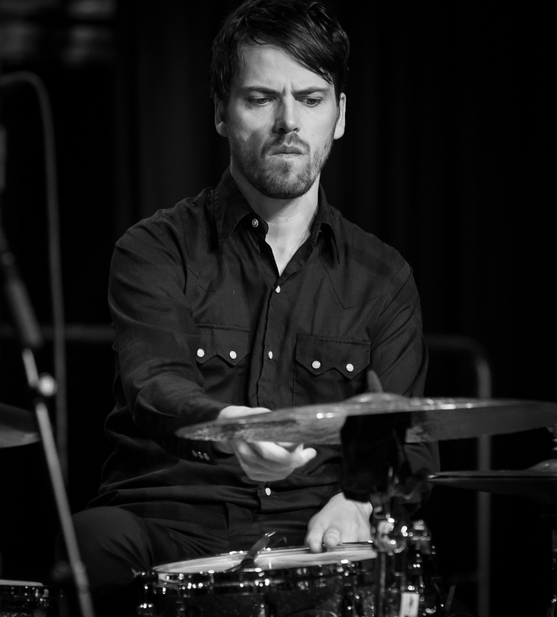 Øyvind Skarbø with Håkon Kornstad Tenor Battle at the stage of Sentralen. The concert was part of the Oslo Jazz Festival in Norway and took place on 19. August 2016. Lineup: Håkon Kornstad (saxophone) Sigbjørn Apeland (harmonium) Lars Henrik Johansen (harpsichord) Per Zanussi (double bass) Øyvind Skarbø (drums)